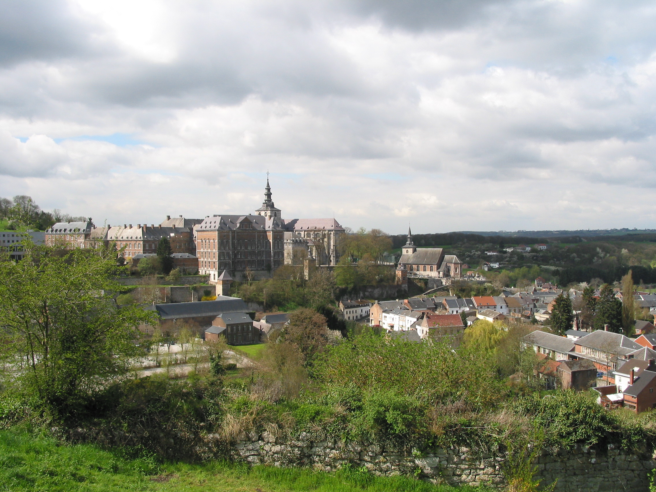 Floreffe (Belgium), the Floreffe Abbey (XVIIIth century), the church of N-D du Rosaire (XVI/XVIIIth century) and the city.